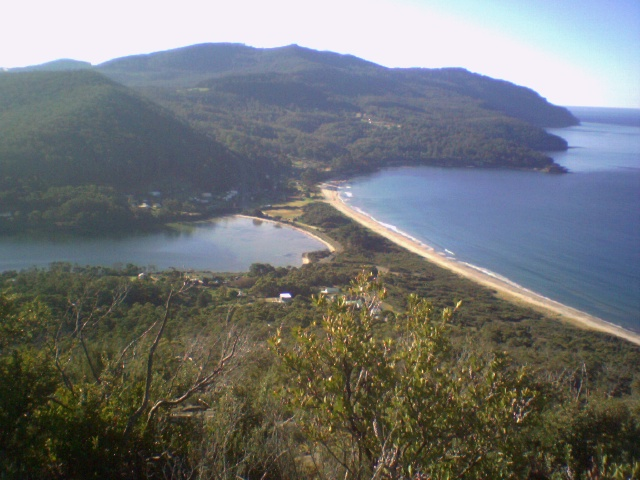 I took this photo while at Eaglehawk neck and thought it would be useful for the appropriate article